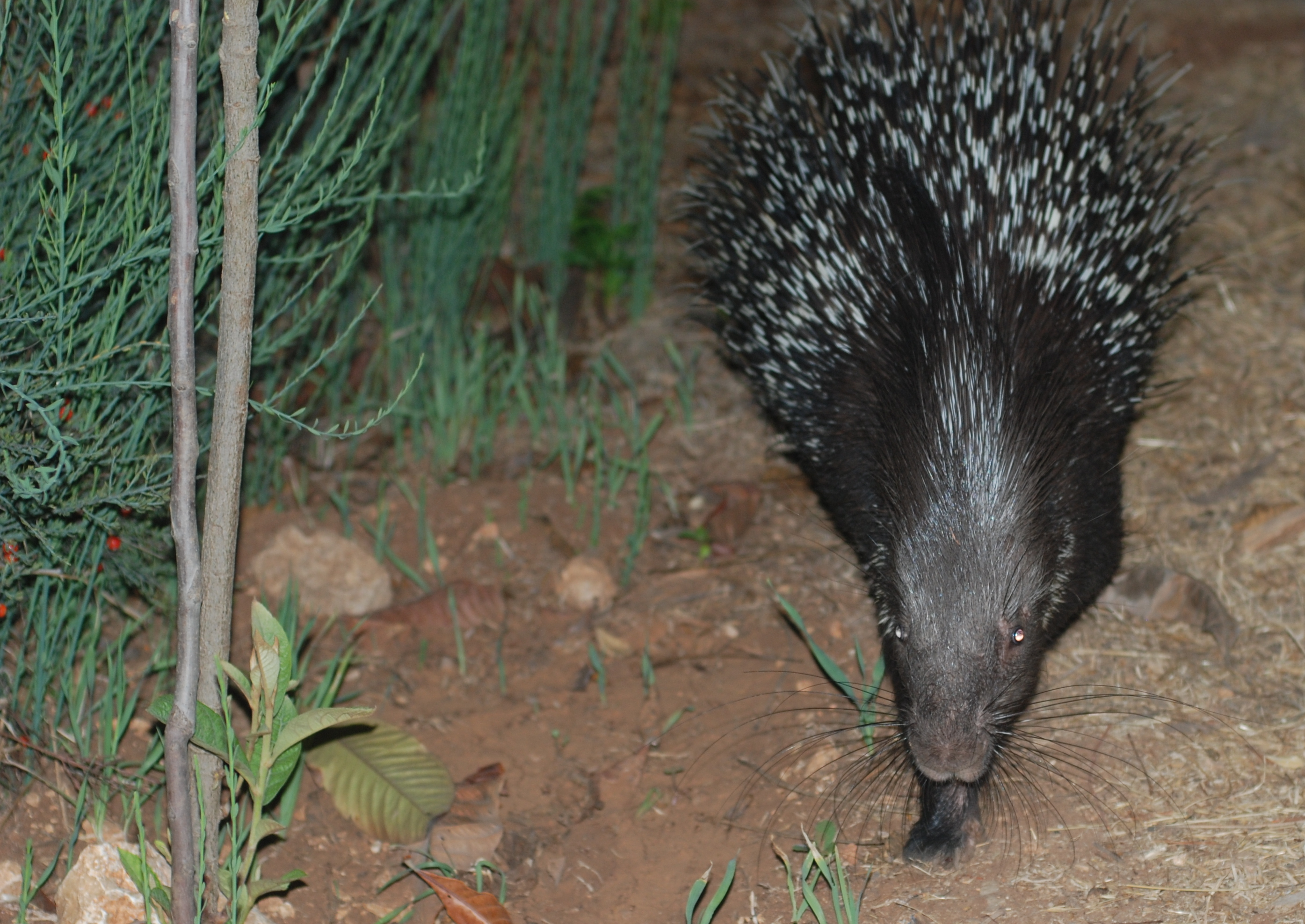 A porcupine during a night stroll at Neve Granot neighborhood located in Jerusalem, Israel